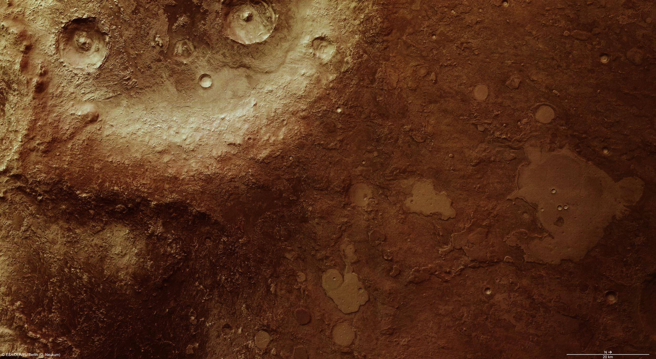 Pedestal craters in eastern Arabia Terra on Mars imaged by the HRSC instrument aboard Mars Express. Extending 159 km by 87 km, this image shows a region with an area of about 13865 sq km, a third of the size of Denmark. Named after a feature on Giovanni Schiaparelli’s 19th-century Mars map, Arabia Terra is part of the highlands of Mars, stretching east to west across 4500 km. With a ground resolution of about 18 m per pixel, the data were acquired near 27°N/56°E during orbit 7457 of Mars Express on 26 October 2009.